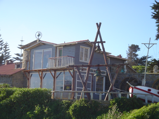 The Casa de Isla Negra - Pablo Neruda's house-museum in Isla Negra. El Quisco, Chile.